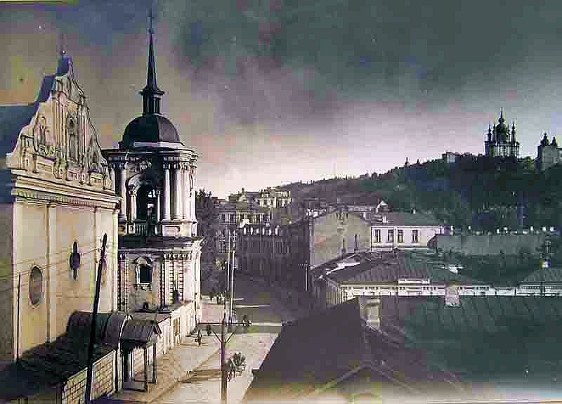 St. Peter and Paul Orthodox Christian Church (ex Latin-rite Saint Sophia Cathedral, from 1614) in Kiev, Podole 1890